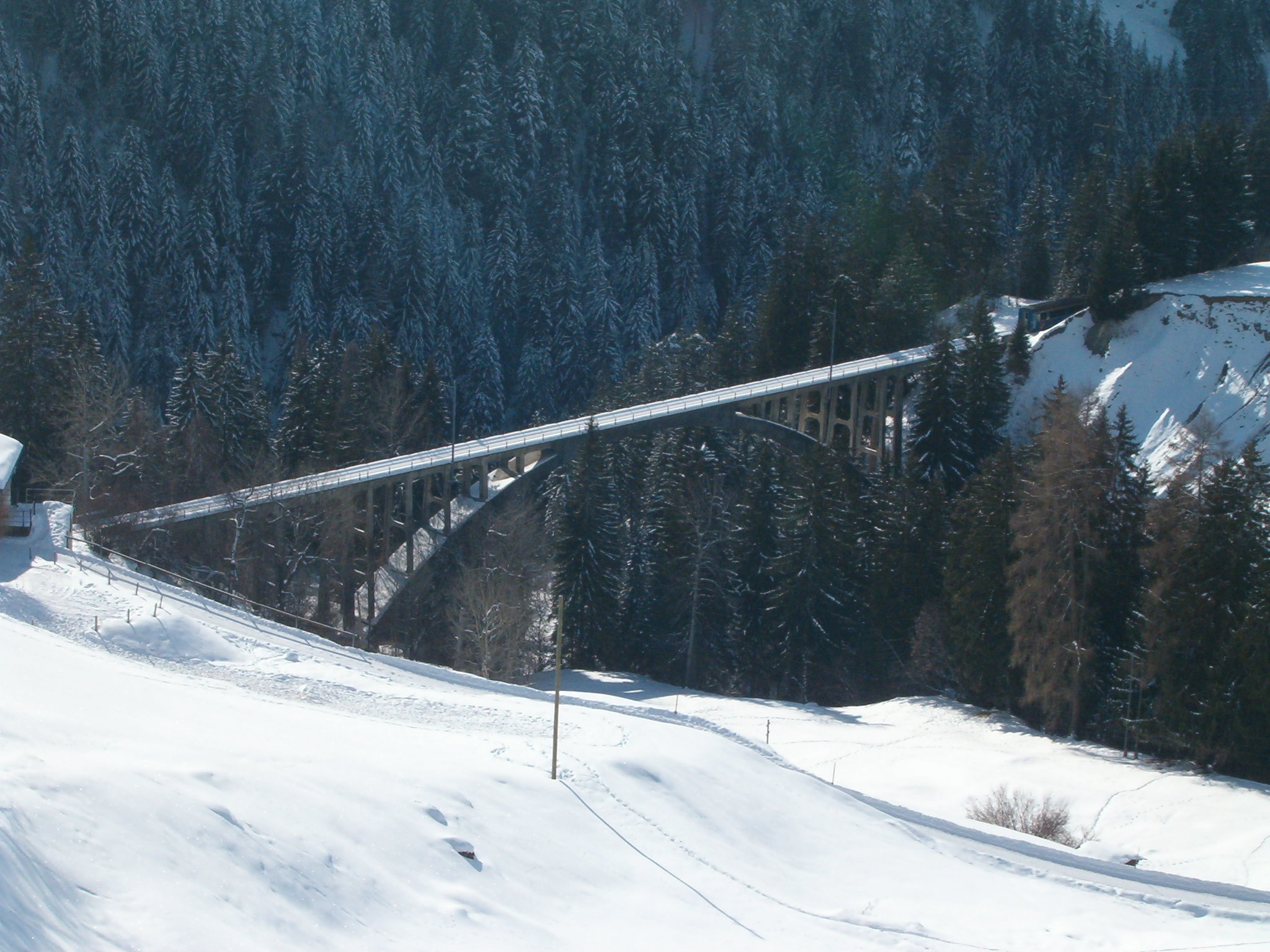 Gruendjitobel-bridge in Langwies/Switzerland